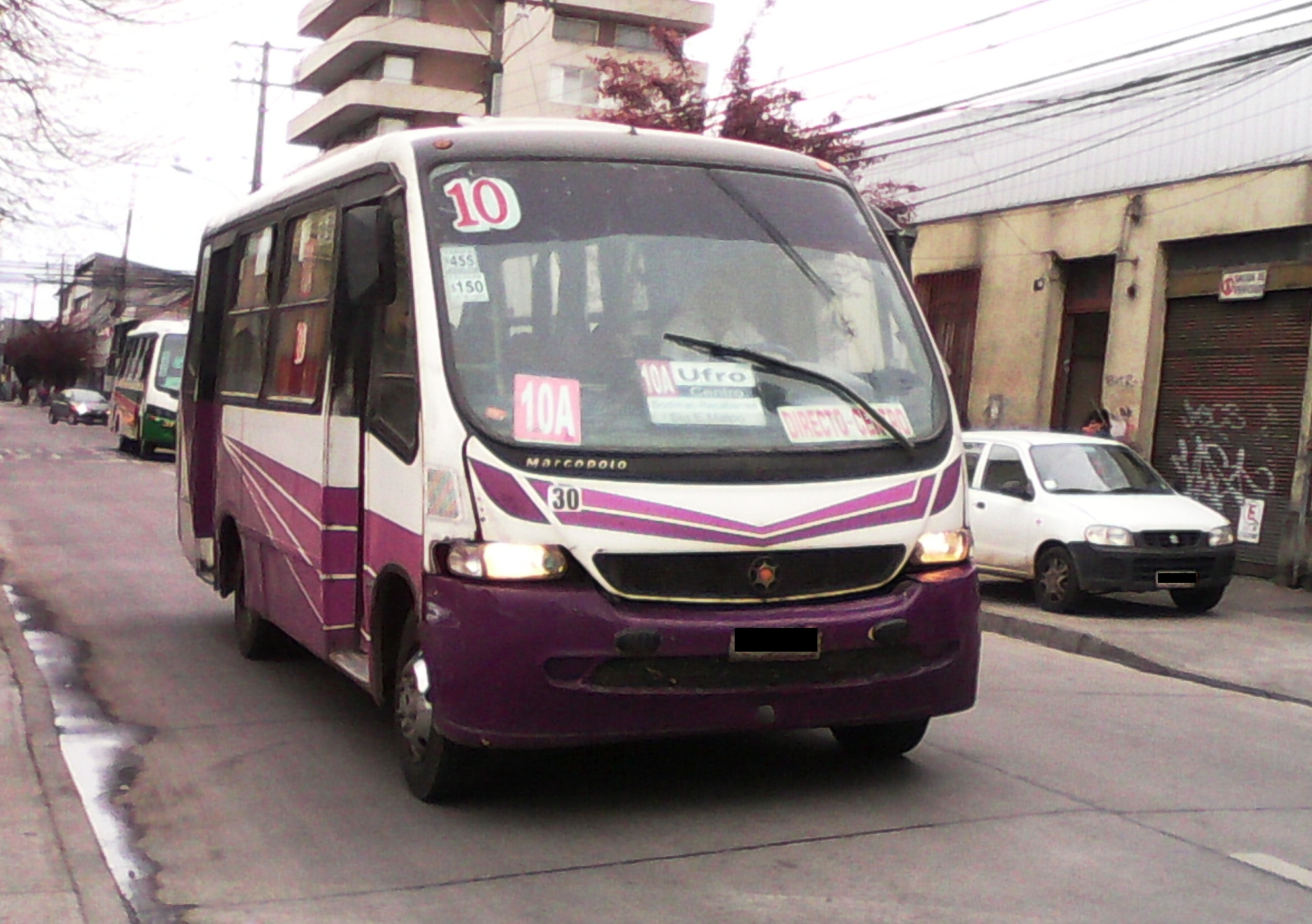 10A line omnibus of Greater Temuco, Chile, on Manuel Rodríguez street.